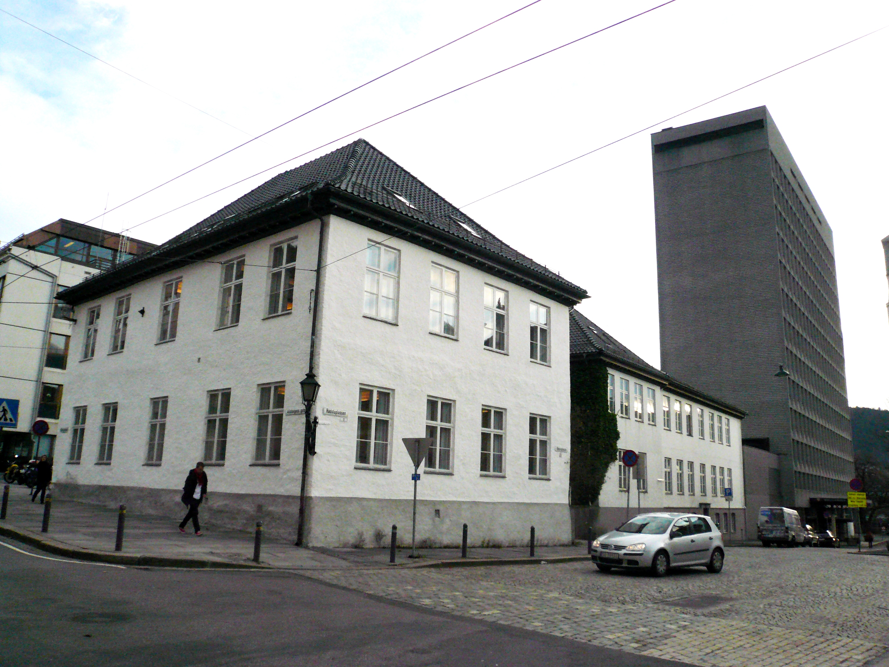 Magistratbygningen, Bergen, Norway